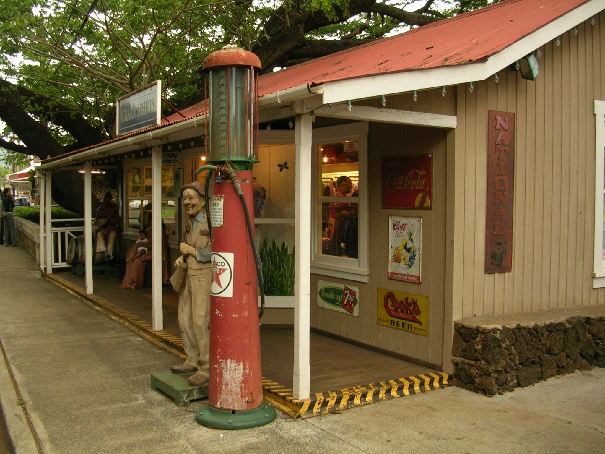 A house at the town of Koloa, Kaua'i Photo by Alejandro Bárcenas (2006)